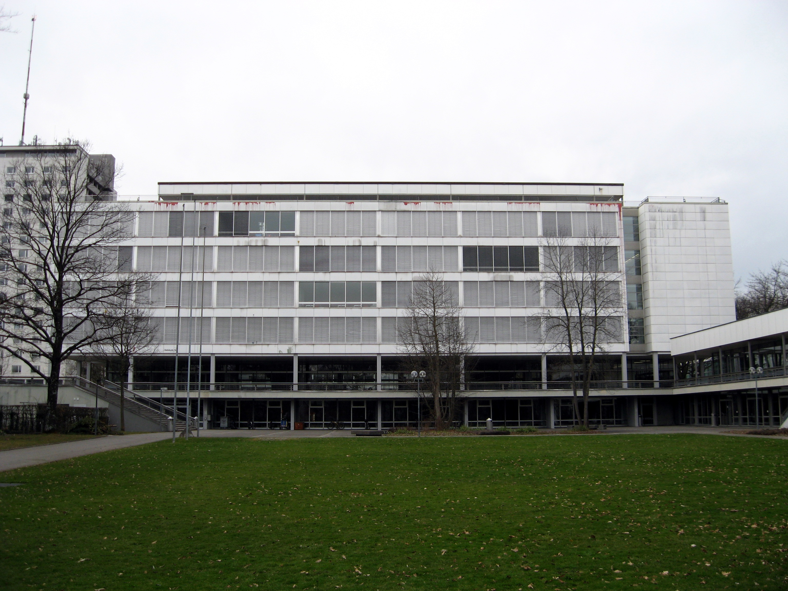 Neufeld high school, Berne (Switzerland)